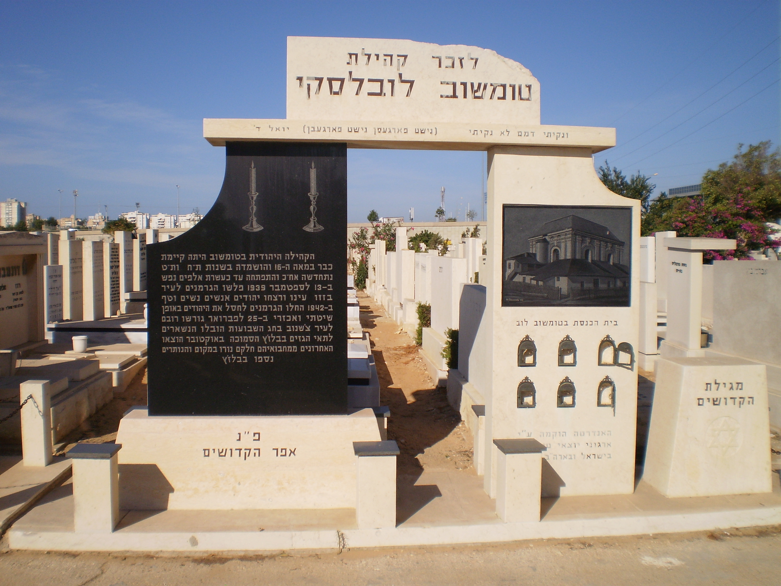 Tomaszów Lubelski Jewery Holocaust memorial at Holon Cemetery